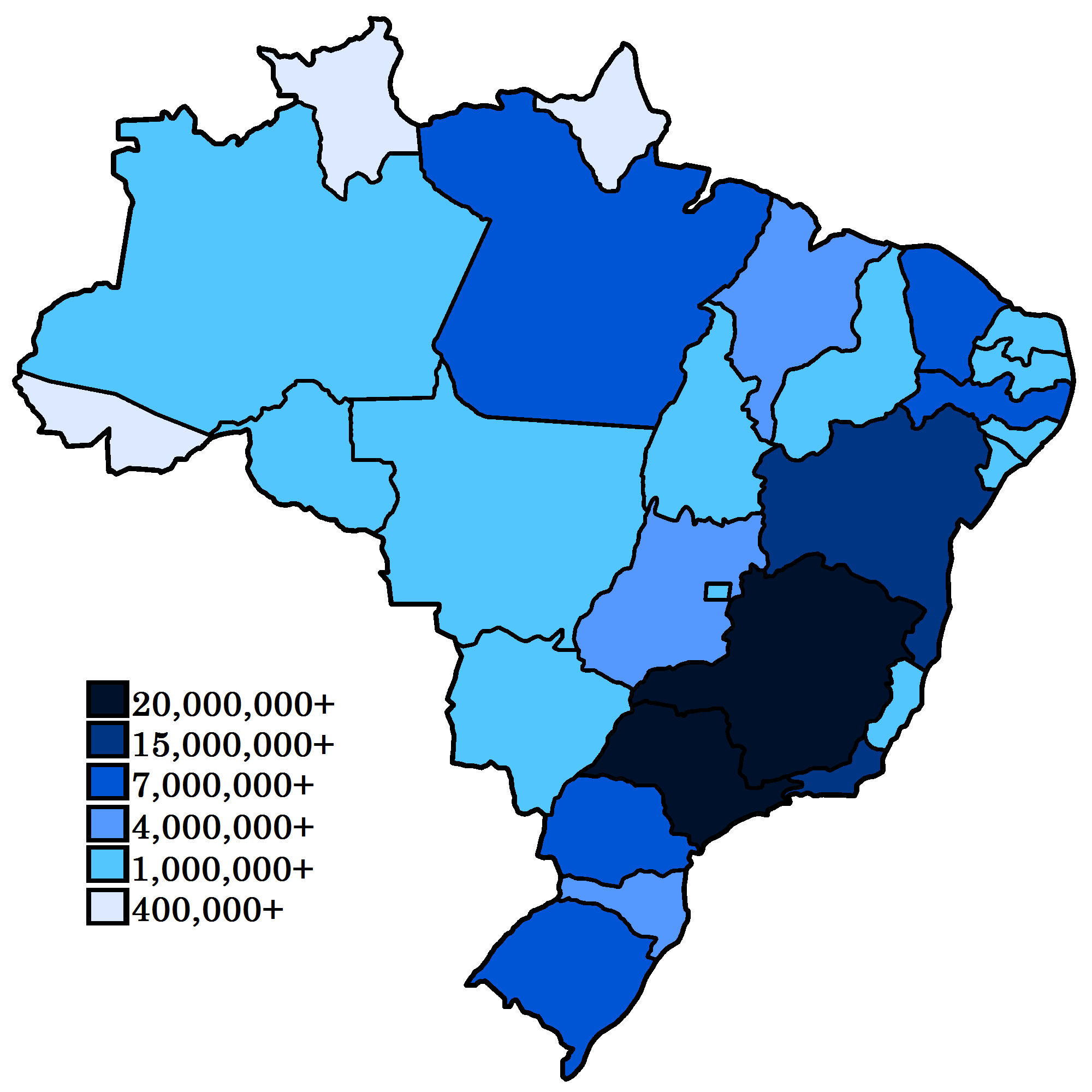 Brazilian states by population 2013.